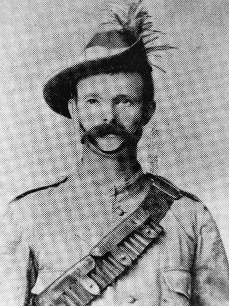 Private Herbert Llewellyn Reece. Private H. L. Reece was in the 1st Contingent of the Queensland Mounted Infantry, he departed for South Africa on transport, the 'Maori King', on the 13 January 1900. He was killed in action at Bloemfontein Sanna's Post on 31 March 1900. (Description supplied with photograph).